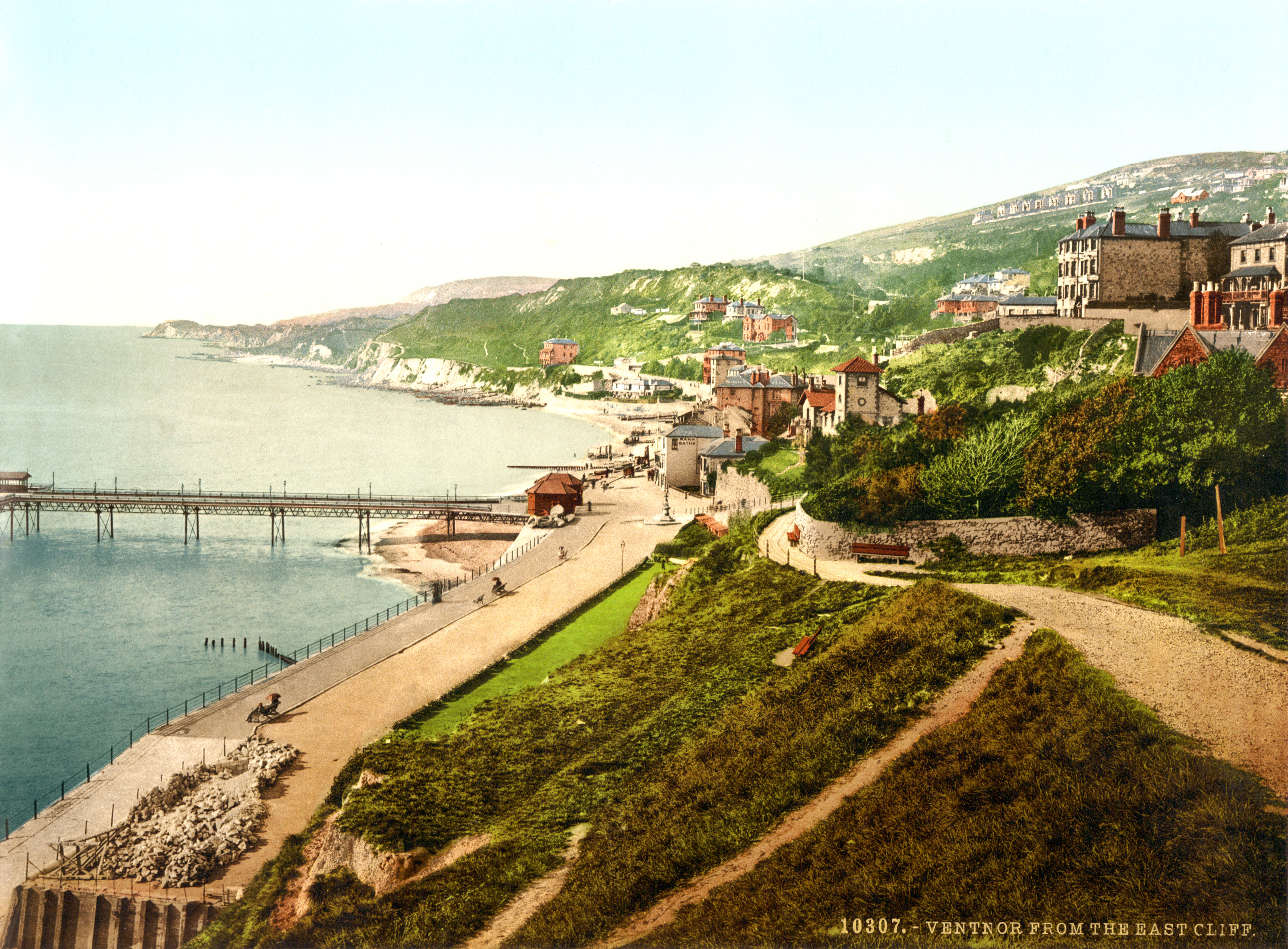 Ventnor, Isle of Wight, England. View from the east cliff.